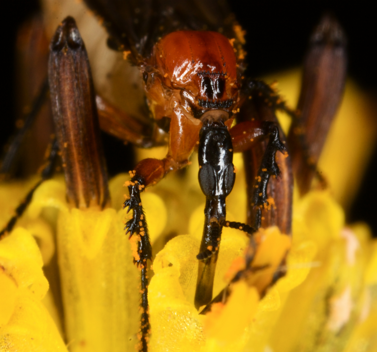 Portrait of a lovebug (Plecia nearctica) feeding off a flower. It was photographed in Nicaragua.